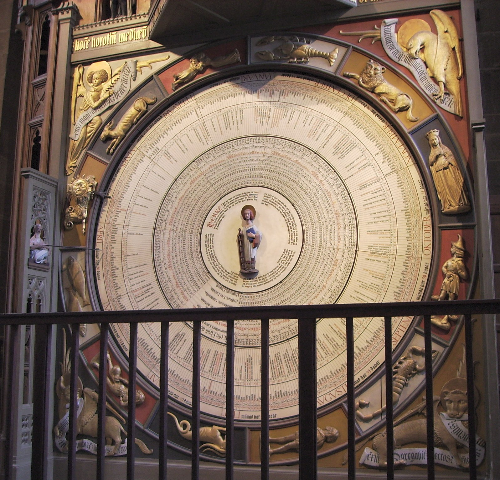 Image of the astronomical clock of the Lund cathedral